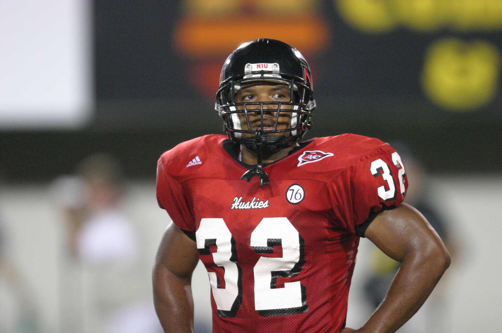 Michael Turner, NIU vs Maryland, 8/28/03